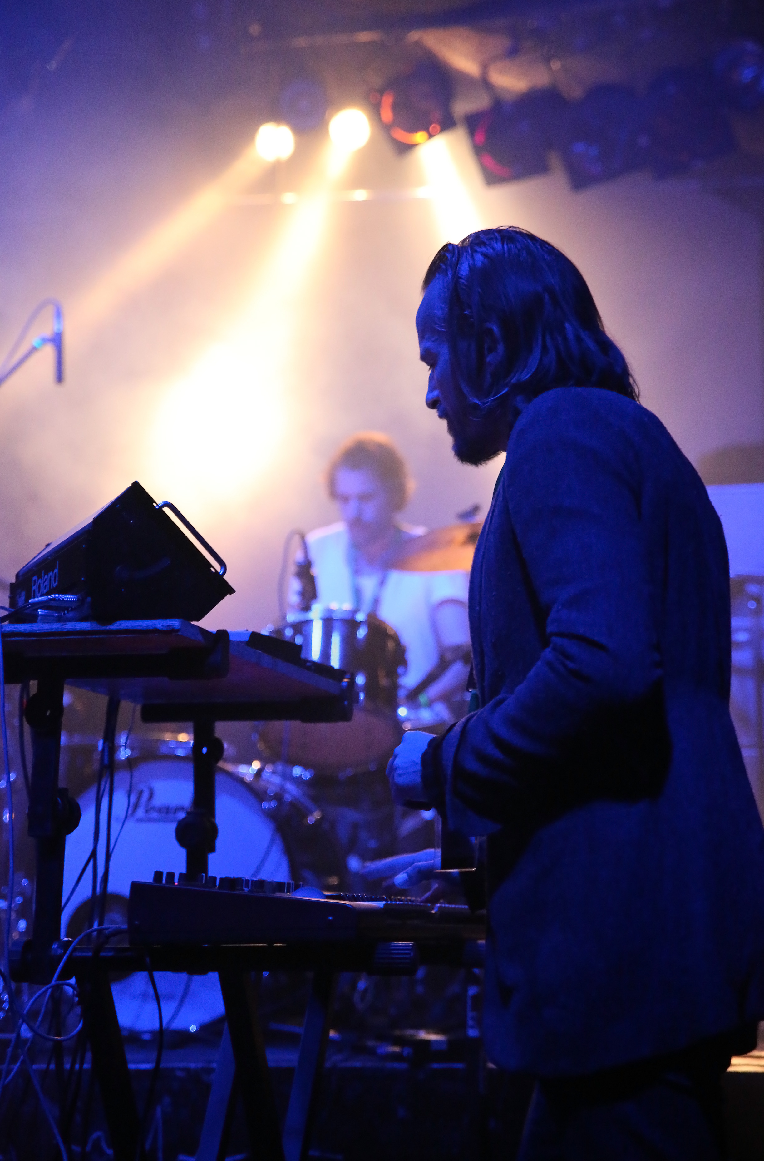 Rocketnumbernine, concert at Fluc, Waves Vienna Music Festival & Conference 2012 in Vienna.